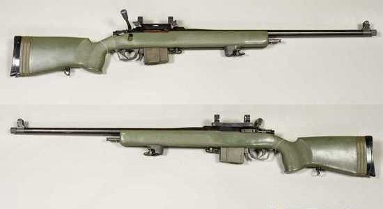 Parker Hale M85 sniper rifle, as tested in Sweden during the 1980's. In the tests it lost out to the Accuracy International Arctic Warfare. Caliber 7.62x51mm NATO. From the collections of Armémuseum (Swedish Army Museum), Stockholm.